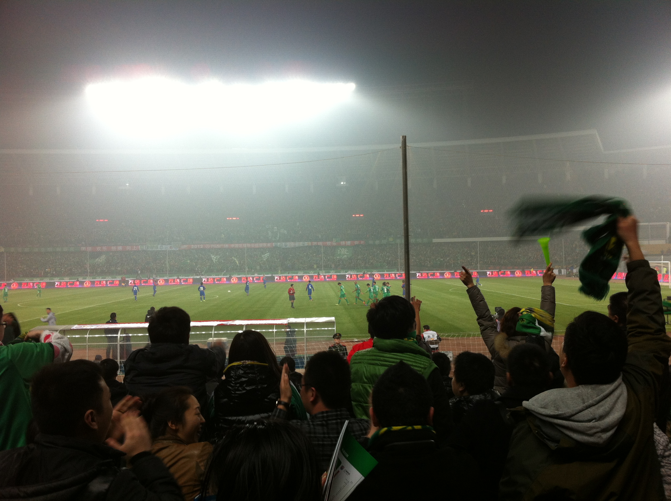 Celebrating Guoan's first goal during the match.